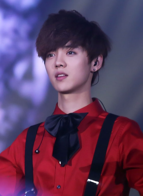 Lu Han at the SMTown Week on December 25, 2013.